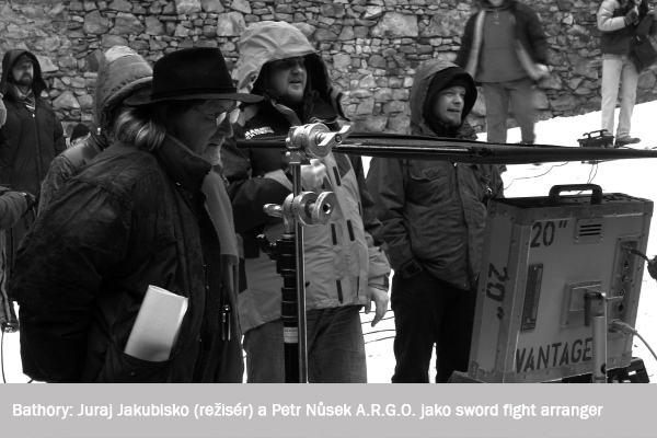 Petr Nůsek Personality rights warningAlthough this work is freely licensed or in the public domain, the person(s) shown may have rights that legally restrict certain re-uses unless those depicted consent to such uses. In these cases, a model release or other evidence of consent could protect you from infringement claims.